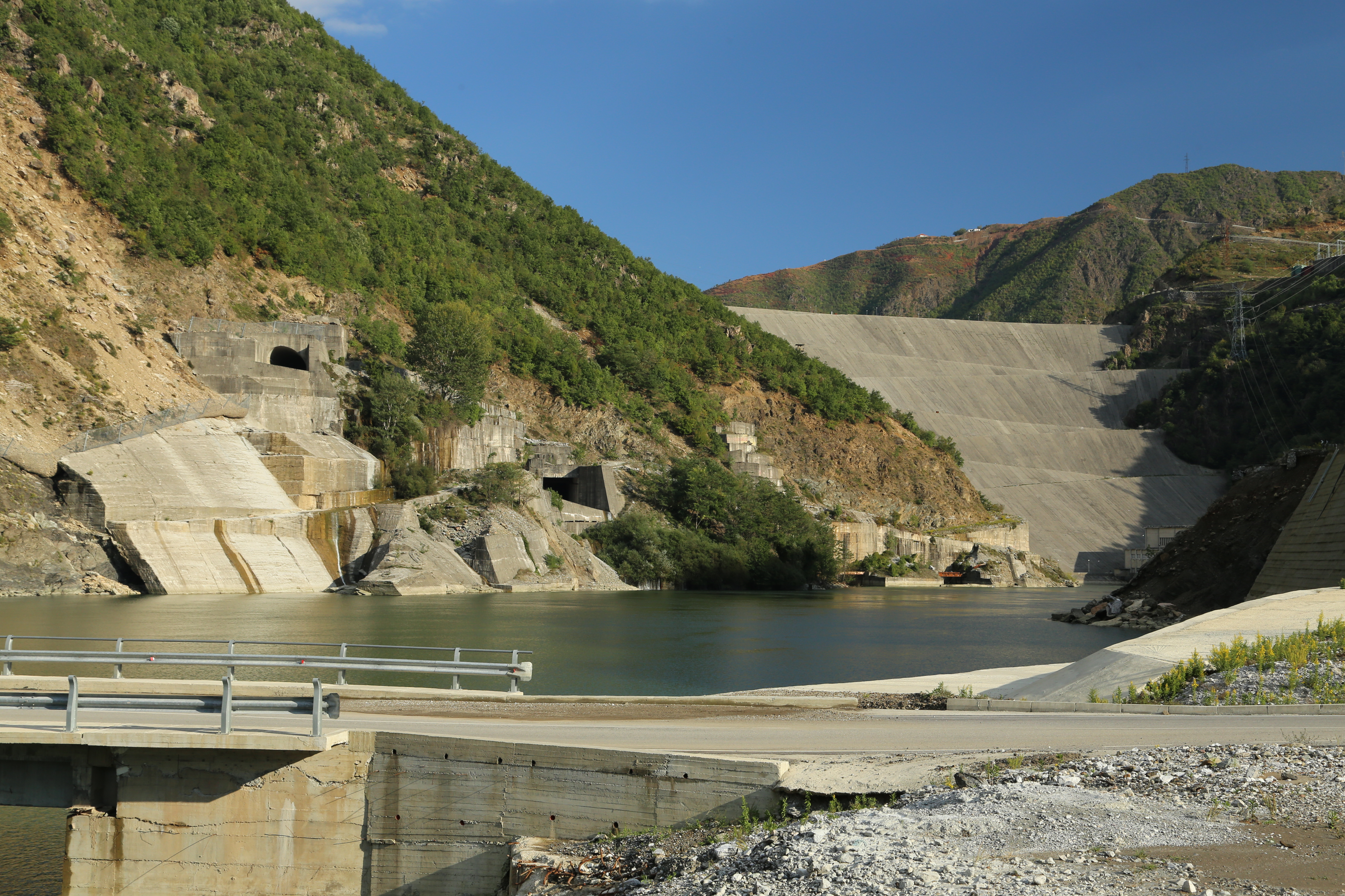 Fierza Hydroelectric Power Station in Albania